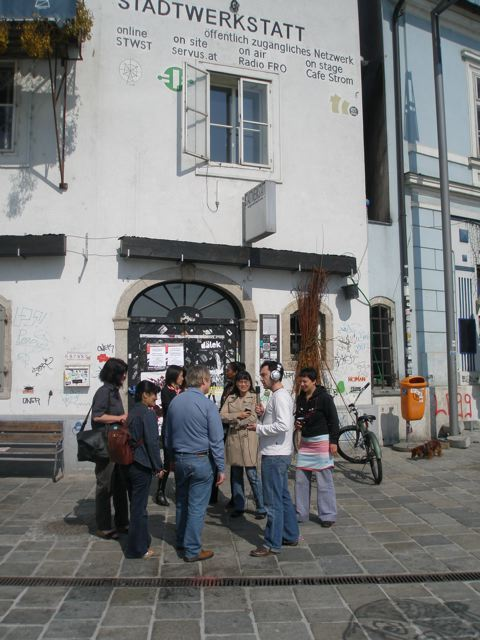 Stadtwerkstatt Linz Building, 1.Floor Radio FRO 105.0, Linz/Urfahr - Austria